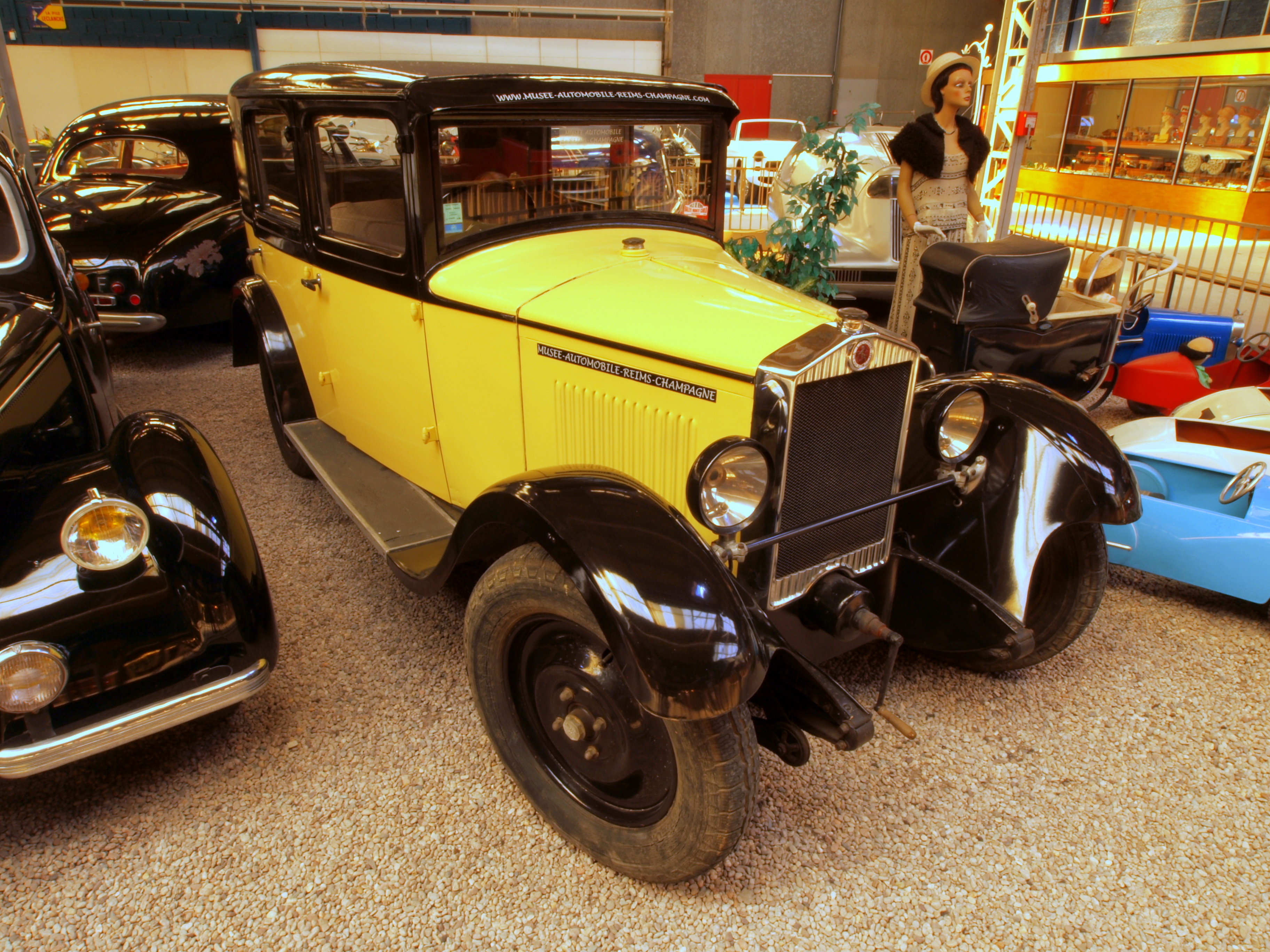 1930 La Licorne, type HO 2